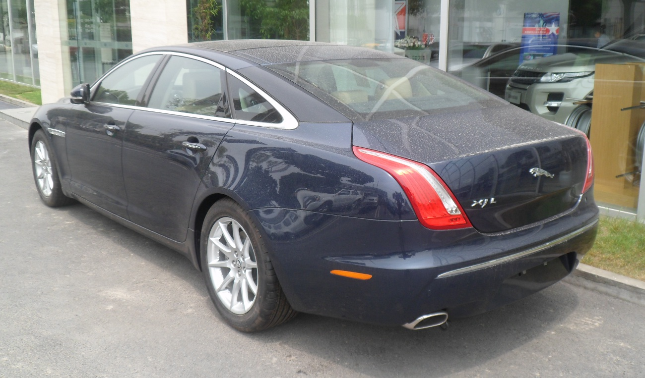 Jaguar XJ L X351 photographed in Shanghai, China.